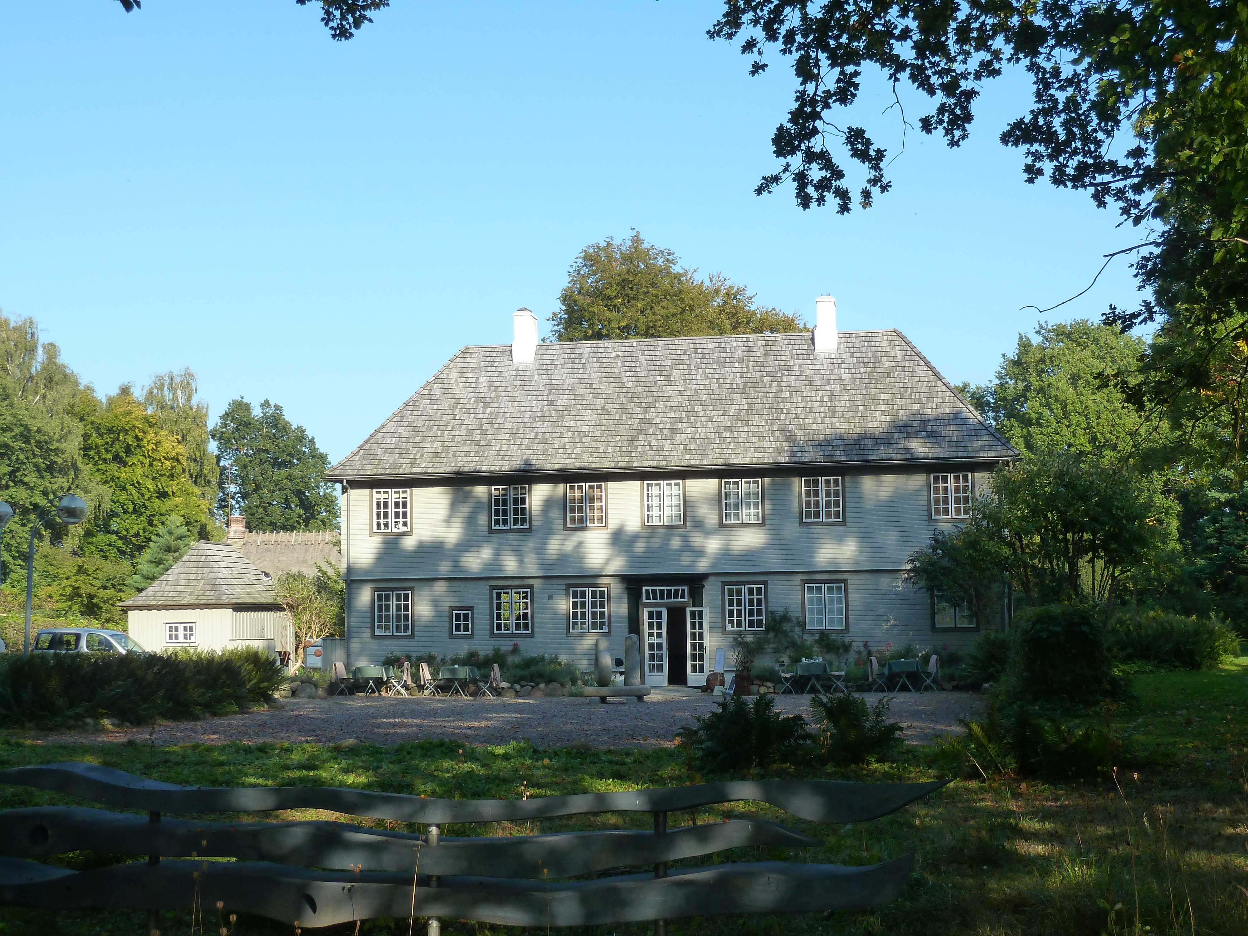 Munkeruphus north of Copenhagen, Denmark